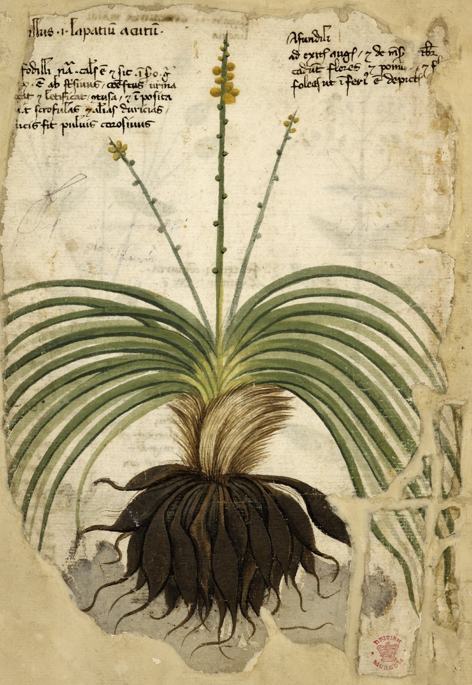 Page from a group of detached leaves related to Codex Bellunensis, BL MS Add. 41996 f. 113v